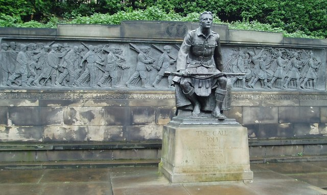 Scottish-American War Memorial with a text by Ewart Alan Mackintosh. This memorial, "The Call", was erected in Princes Street Gardens in 1927, gifted by American Scots as a tribute to the bravery of Scottish troops during the 1914-1918 conflict. Mackintosh's reads "if it be life that waits, I shall live forever unconquered. If death, I shall die at last, strong in my pride and free."